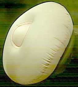 AIRRBAG driver for automotive example